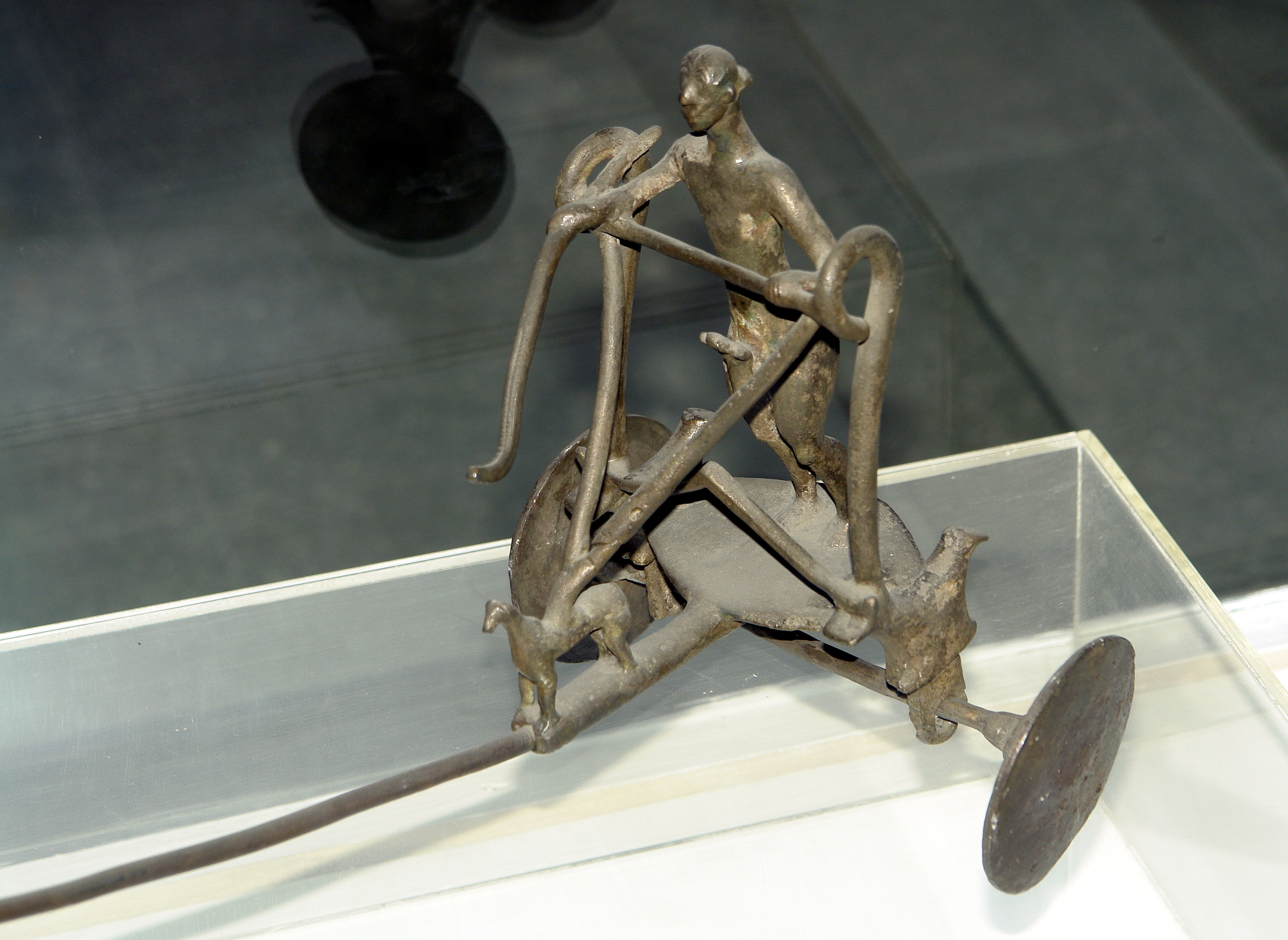 Bullock cart driver, 2000 B.C. Harappa, National Museum, New Delhi.